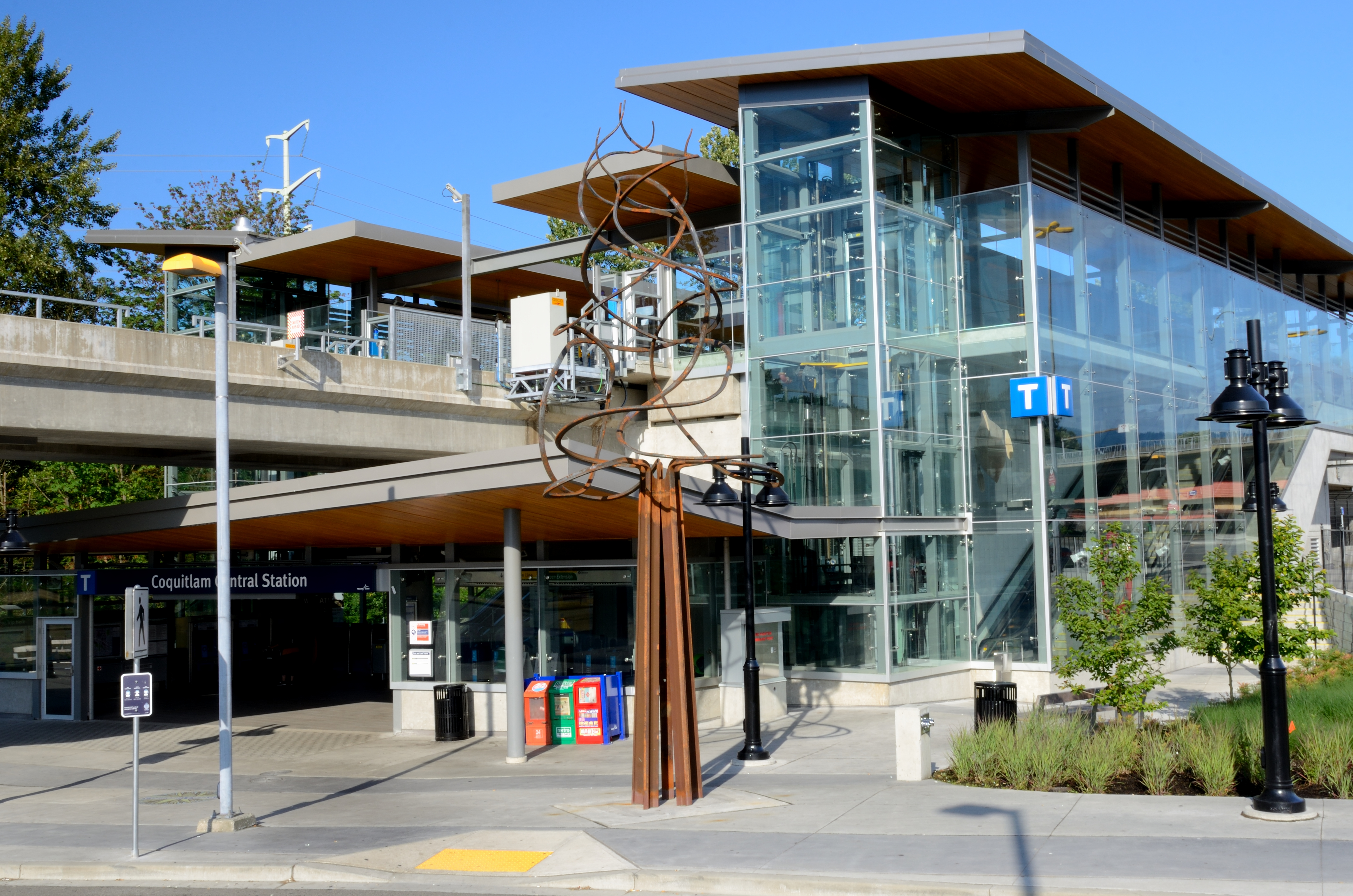 Exterior shot of Coquitlam Central Station on the Millenium Line.